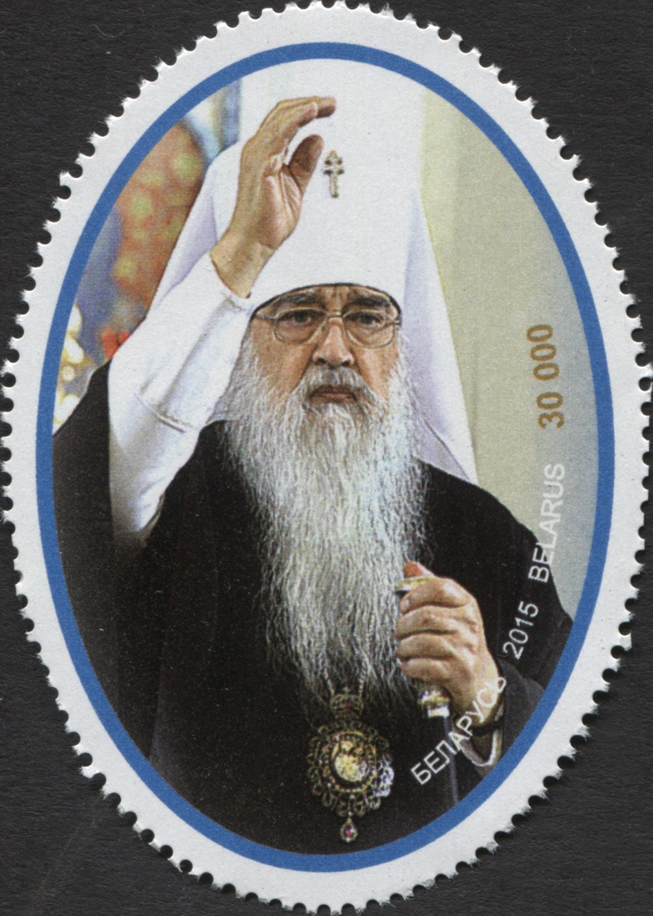 Stamps of Belarus, 2015